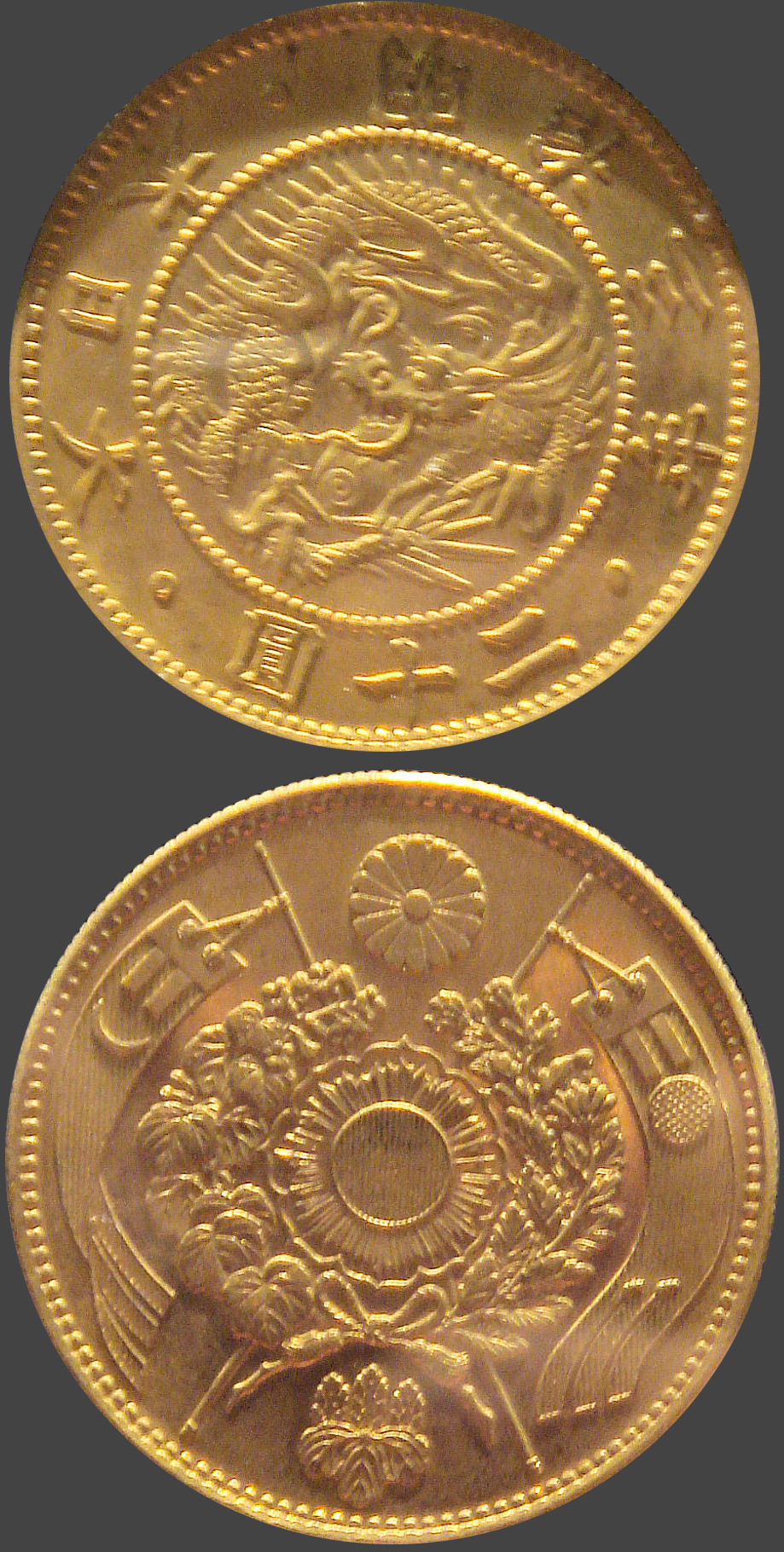 Early_20_yens_gold_coin